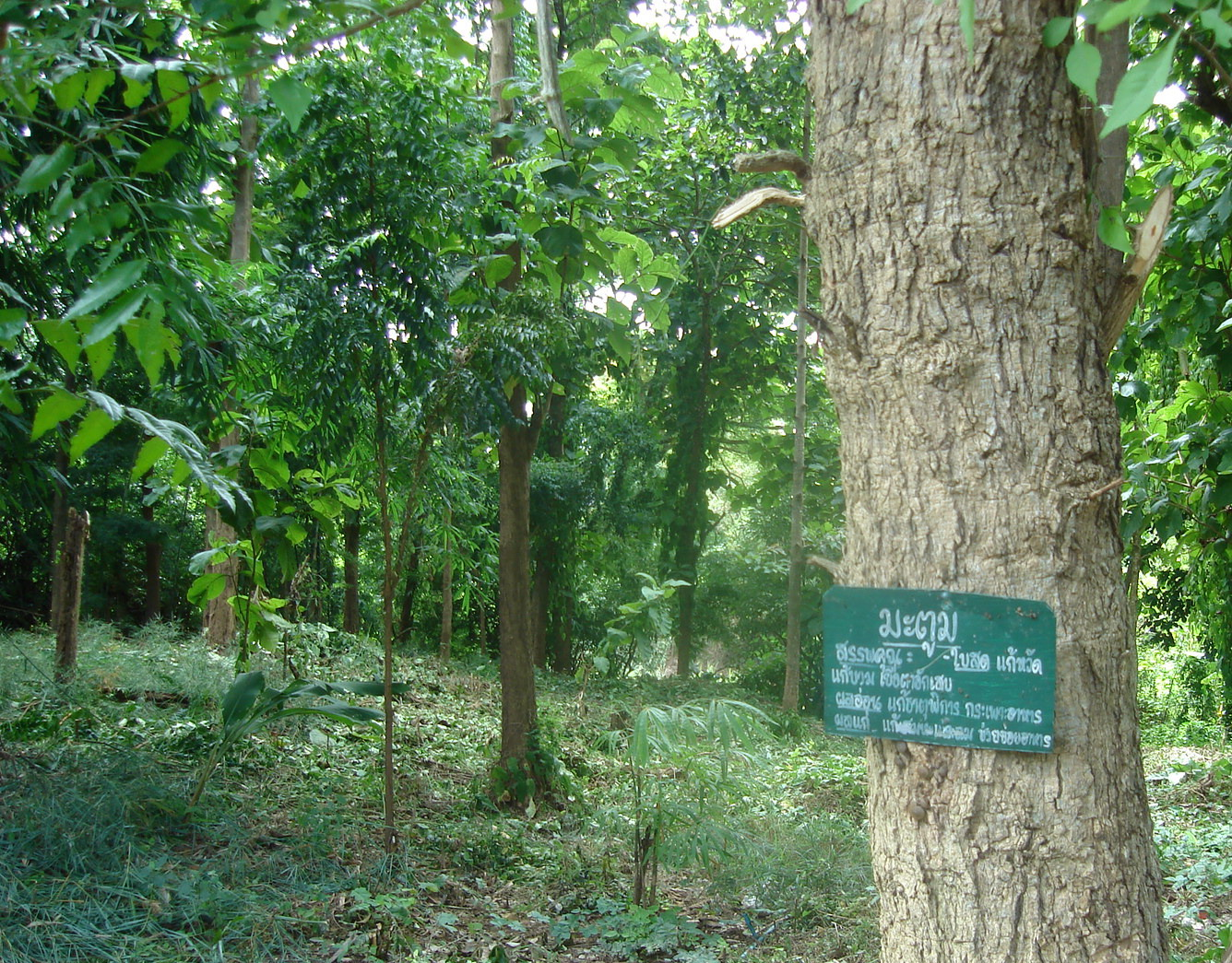 Wat Khung Taphao Herbs Garden Ban Khung Taphao, Khung Taphao subdistrict, Mueang Uttaradit, Uttaradit Province, Thailand.) on December 2, 2008.